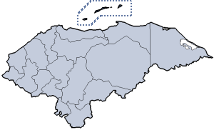 Division of Honduras Graphic created by Keith Edkins